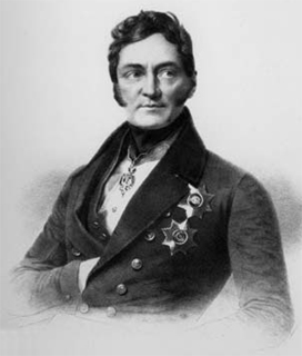 Count Lev Alekseyevich Perovski (Лев Алексеевич Перовский), 1792–1856. Mineralogist; namesake of perovskite; Russian Minister of Internal Affairs under Czar Nicholas I. Lithography,Other transliterations of his surname include Perovsky, von Perovsky, Perovskiy, von Perovski, Perovskii, Perowski and Perowsky.